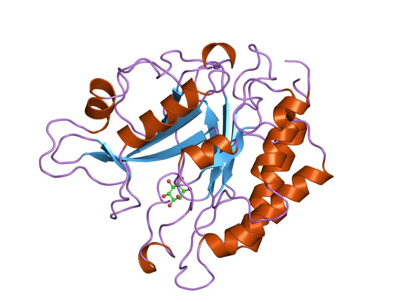 Cartoon representation of the molecular structure of protein registered with 1ptg code.